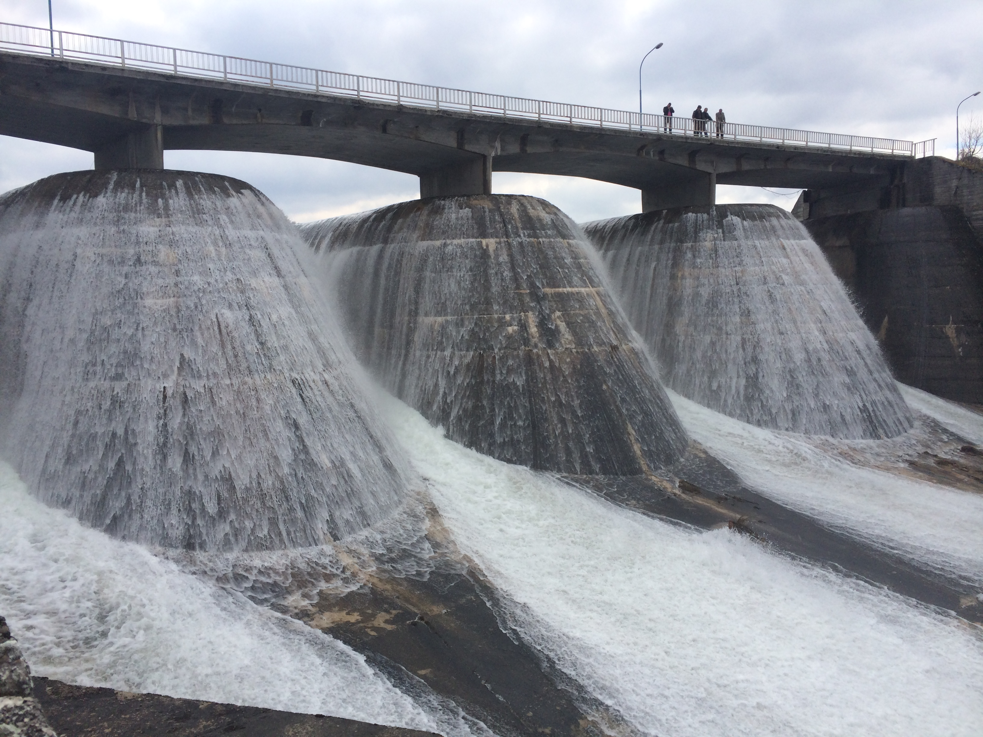 Image of the Zlatarsko Dam for the Kokin Brod (22 MW) HE power plant, municipality of Nova Varos, Serbia. This is on the Uvac river.